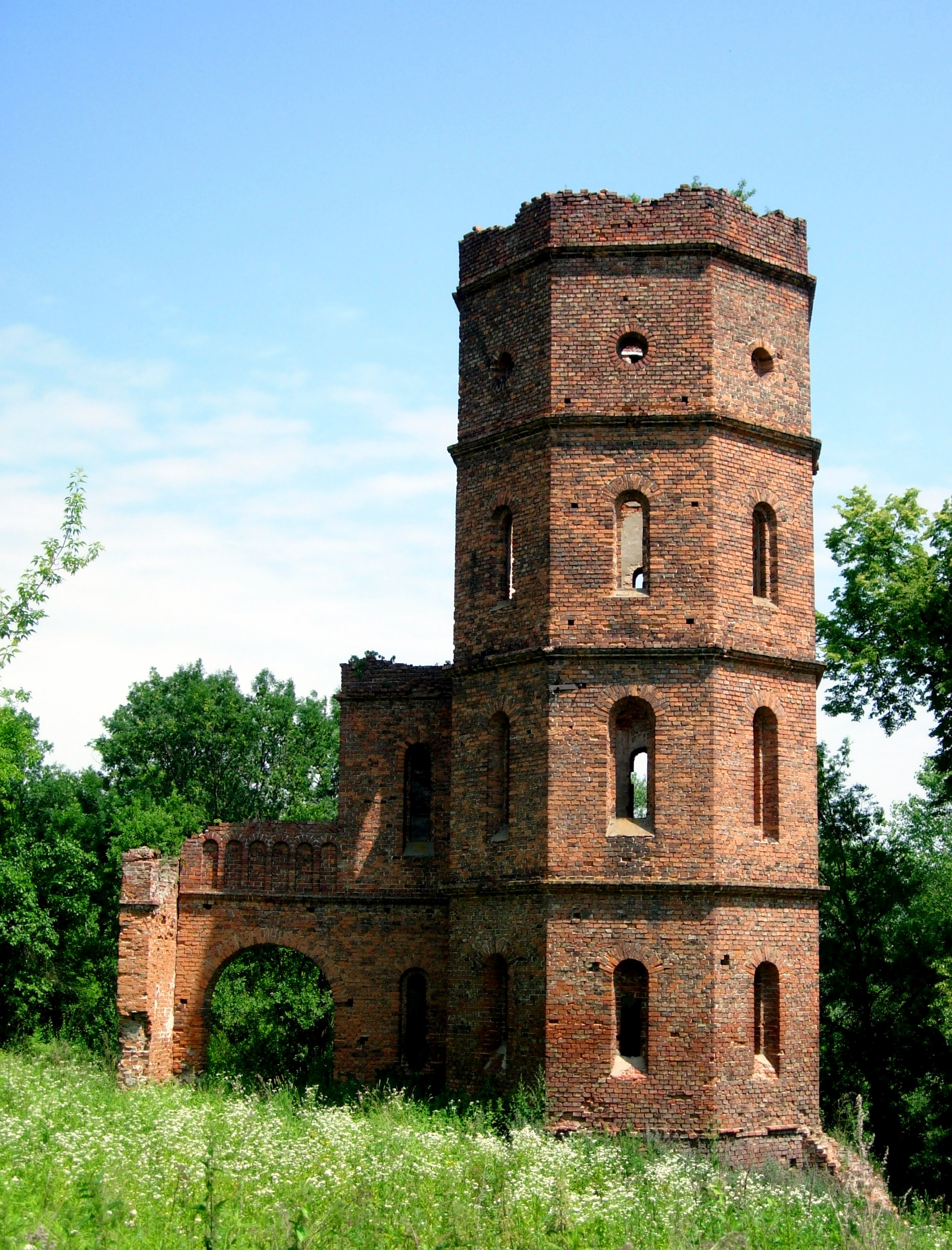 The tower in Rogów, part of the remains of the mansion (Poland)